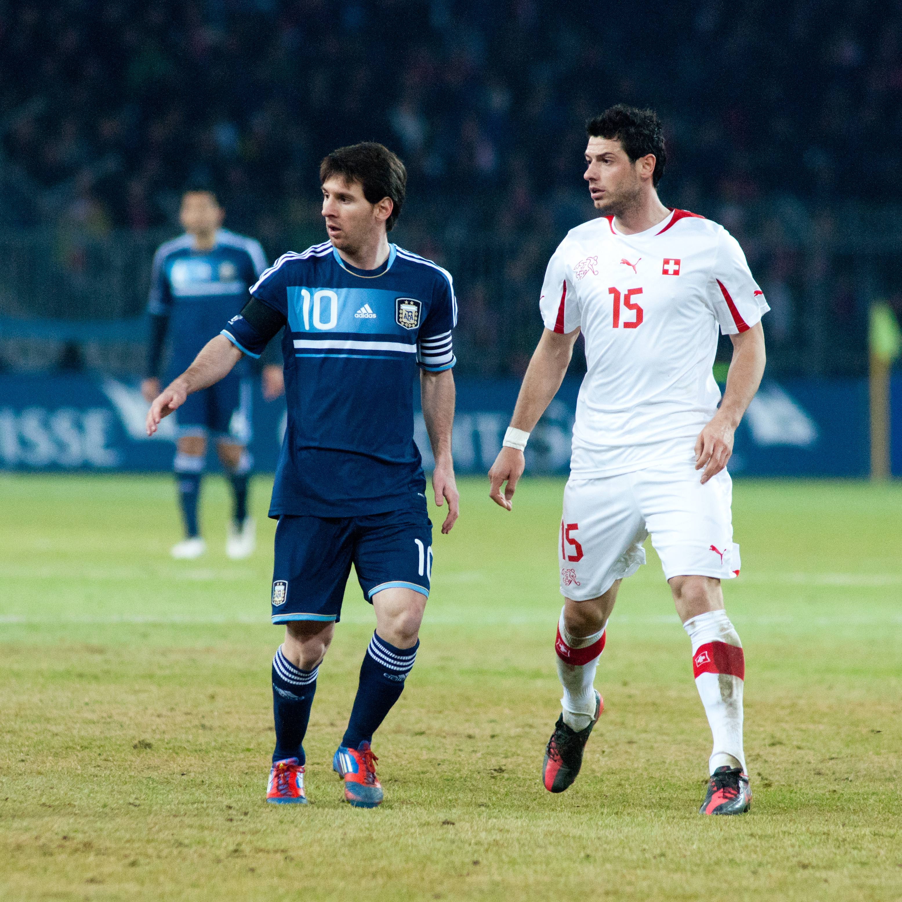 The making of this document was supported by Wikimedia CH. (Submit your project!) For all the files concerned, please see the category Supported by Wikimedia CH. Switzerland vs. Argentina, 29th February 2012